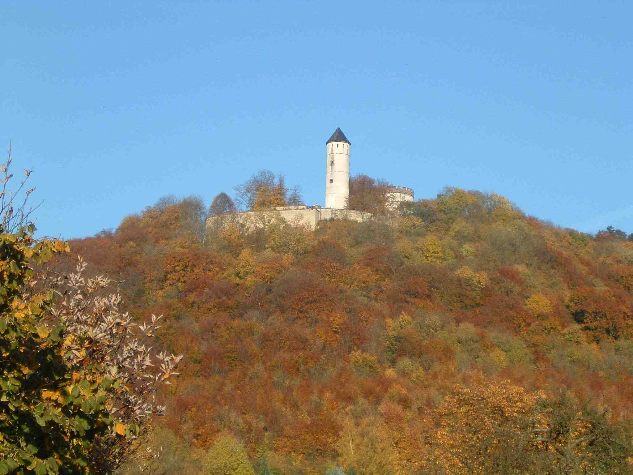 Description: – Plesse Castle, near Göttingen, Germany